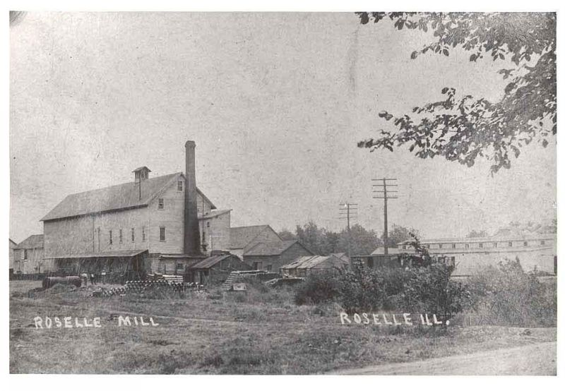 Roselle Mill in Roselle, Illinois. The given notes state: "(Roselle Flour and Feed Mill. Photo marked 1895. Little difference between this photo and photos of the mill that was rebuilt after the fire of 1916.) In 1890, John C. Hattendorf built a grain mill along the north side of the railroad tracks between Prospect Street and Roselle Road. The owners of the mill were: Hattendorf, William Fenz, Herman Schmoldt, H. Turner, J. F. O'Day; rented to Robert Schulze."